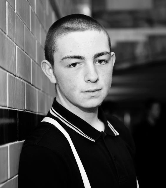 A modern british skinhead